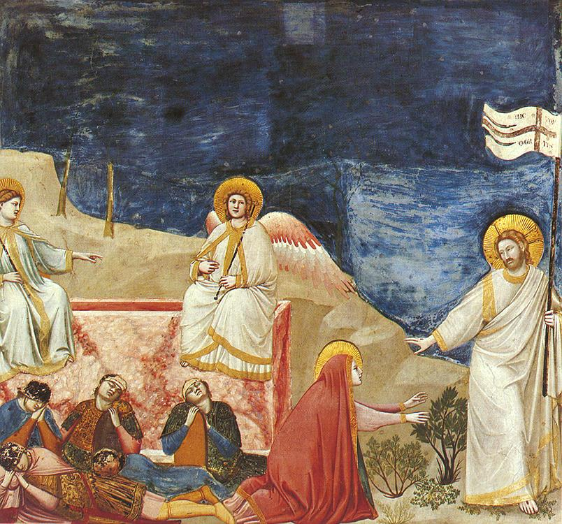 Life of Christ